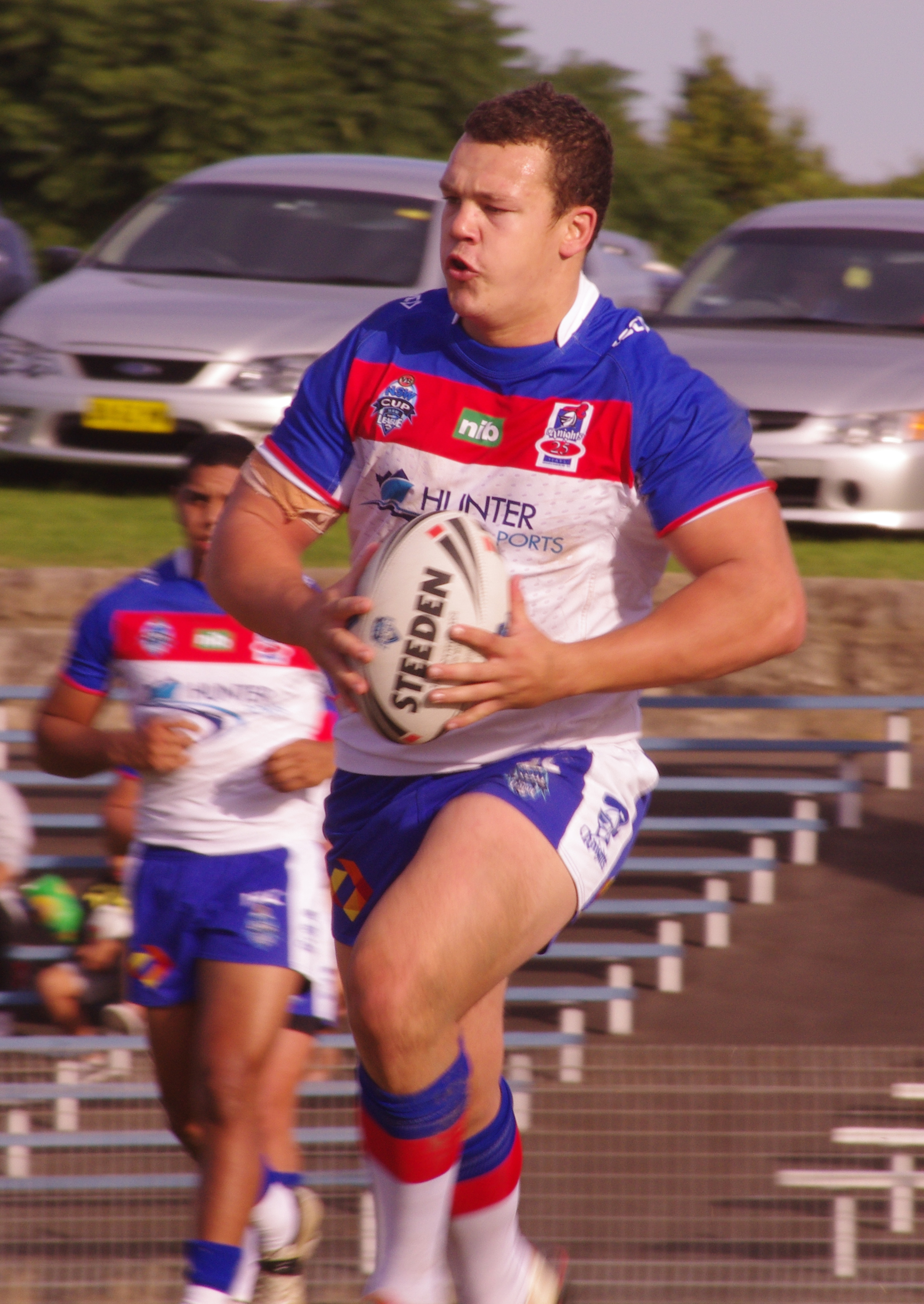 SAM ANDERSON